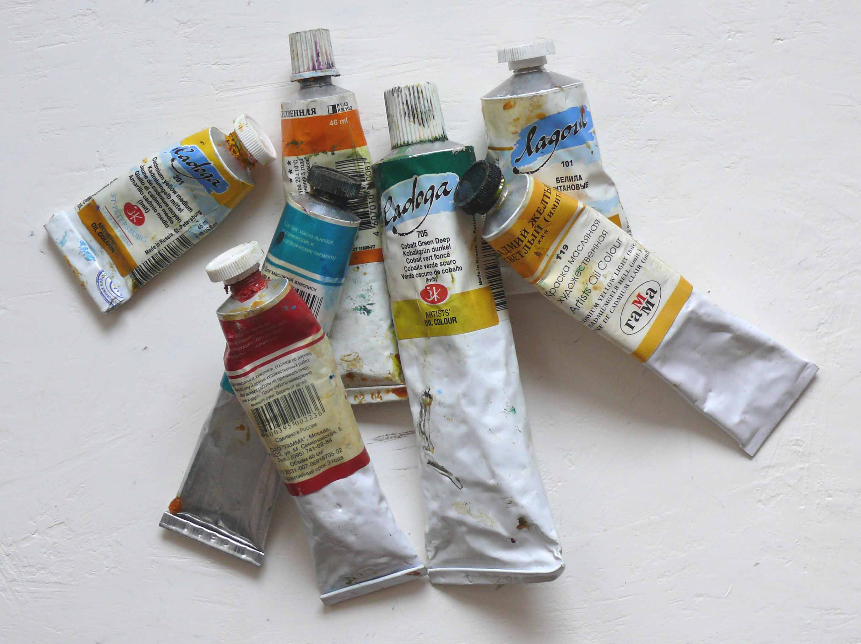 Oil paints